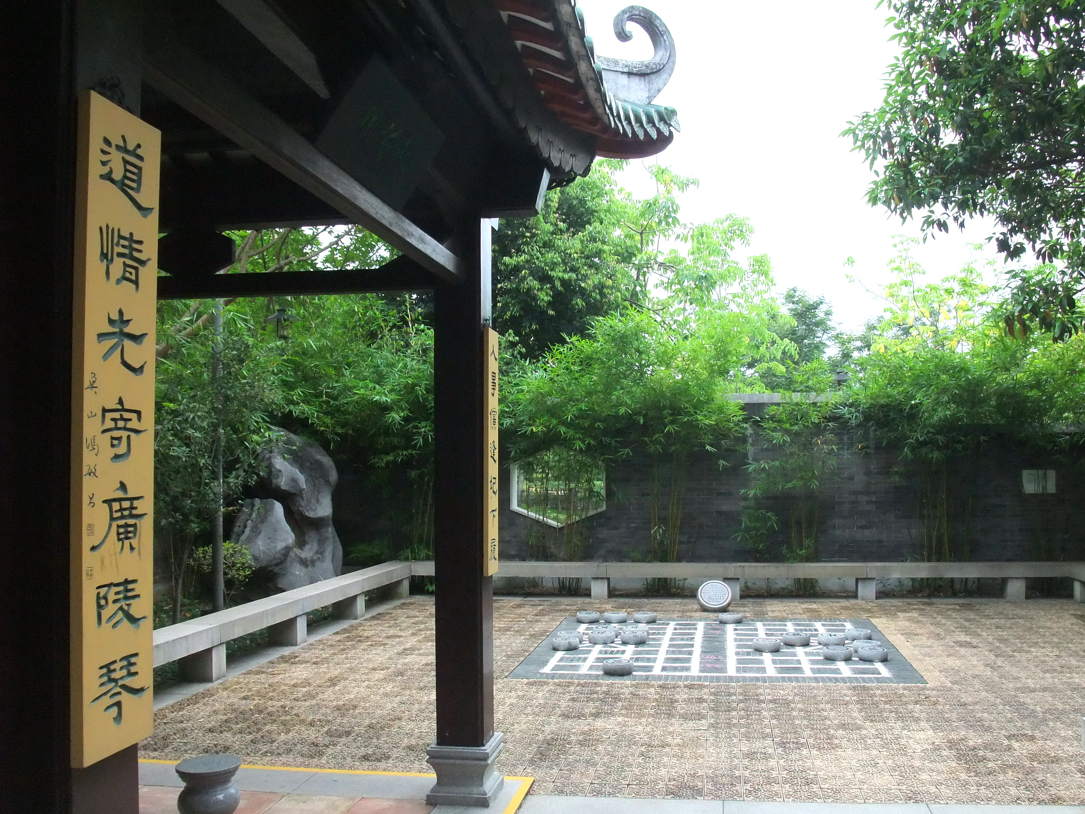 Lingnan Garden in Lai Chi Kok Park, Hong Kong.